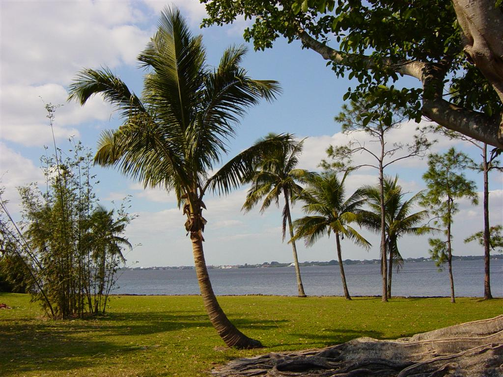 View of the Caloosahatchee River taken from the grounds of the Edison and Ford Winter Estates, Fort Myers January 27, 2006.